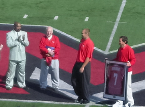 Ben Roethlisberger (3rd from the left -- wearing sweatpants) while his number is being retired at Yager Stadium before the Bowling Green game on October 30, 2007. Also pictured the two other Miami football player to have their number retired: Bob Hitchens (far middle)and John Pont (2nd from the left)